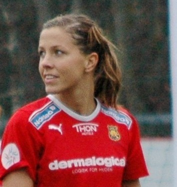 Guro Knutsen Mienna for Røa against Stabæk